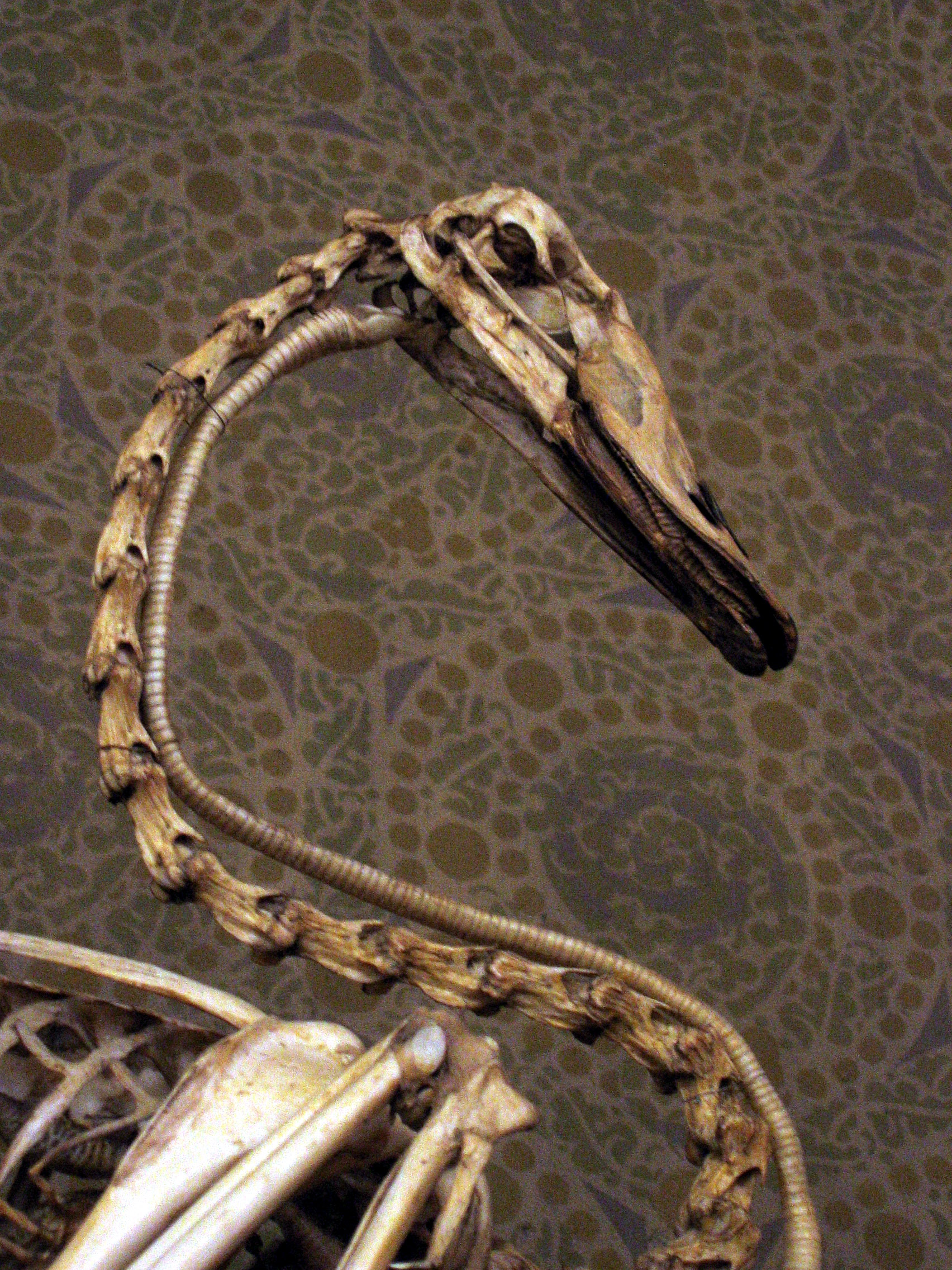 Skeleton of a swan's neck at the Universiteitsmuseum in Groningen